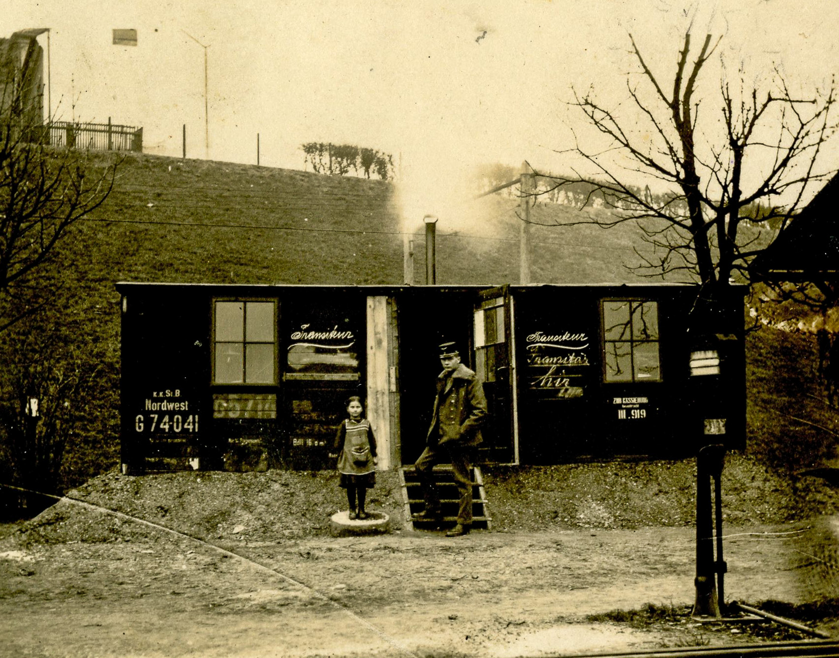 Emergency accommodation from an outgoing train wagon, presumably at the Northwest Railway Station in Brigittenau, the XX. district of Vienna / Austria / EU.